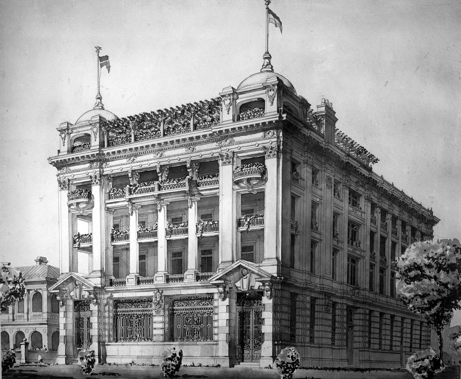 Design for Karberg & Co, 50 South Shamian Street, 1908 by Arthur Purnell